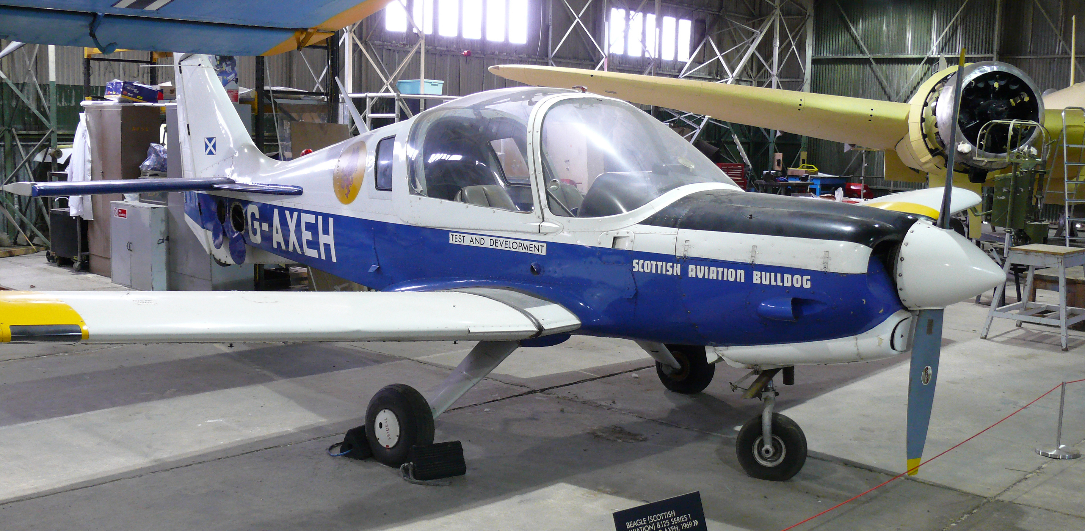 Prototype of Beagle Aircraft B.125 Bulldog Series 1 (G-AXEH) in the National Museum of Flight in East Fortune, East Lothian, Scotland. All subsequent aircraft were built at Prestwick Airport by Scottish Aviation, or in later years, British Aerospace. It was donated to the Museum in 1991. Museum Number T.1983.277